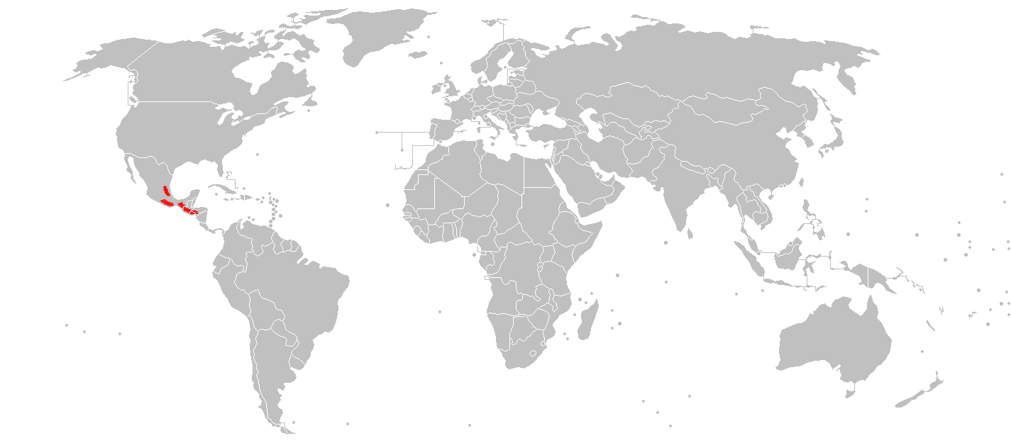 A map showing approximately the range of distribuition of Aztec Mouse. Based on File:BlankMap-World-v7.png. Original map found here. (As a cartographer, I am a great software programmer, so I believe my map is not great. Could you improve it?)